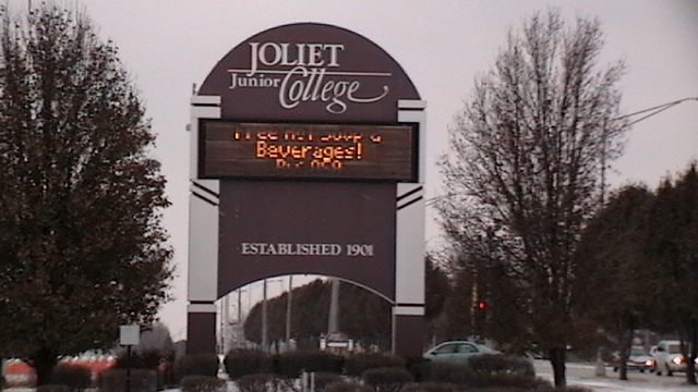 Sign of Joliet Junior College Main Campus, Joliet